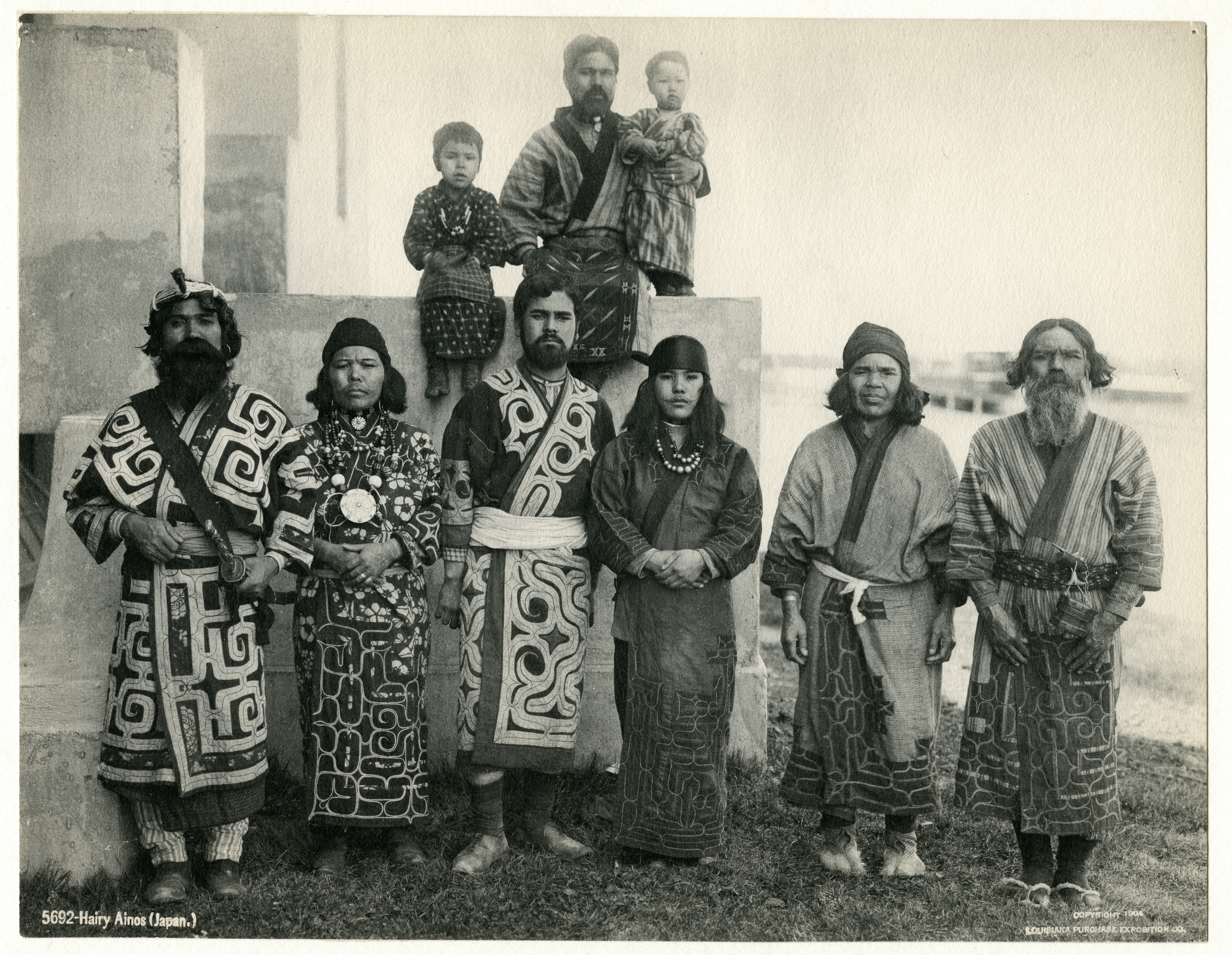 Title: Group of Hairy Ainus from Japan in the Department of Anthropology at the 1904 World's Fair.